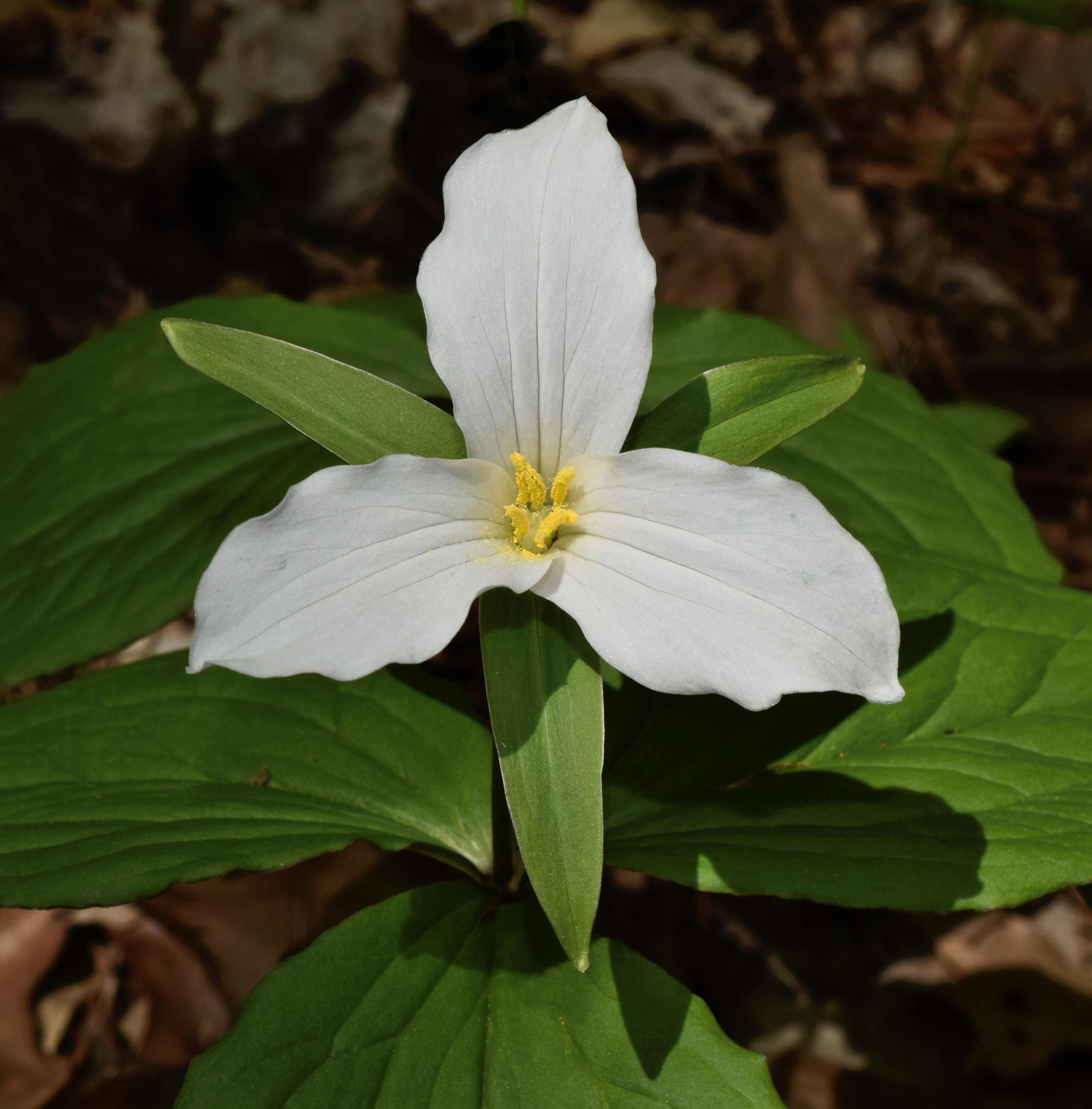 White trillium (Trillium grandiflorum) blooming in Backus Woods.